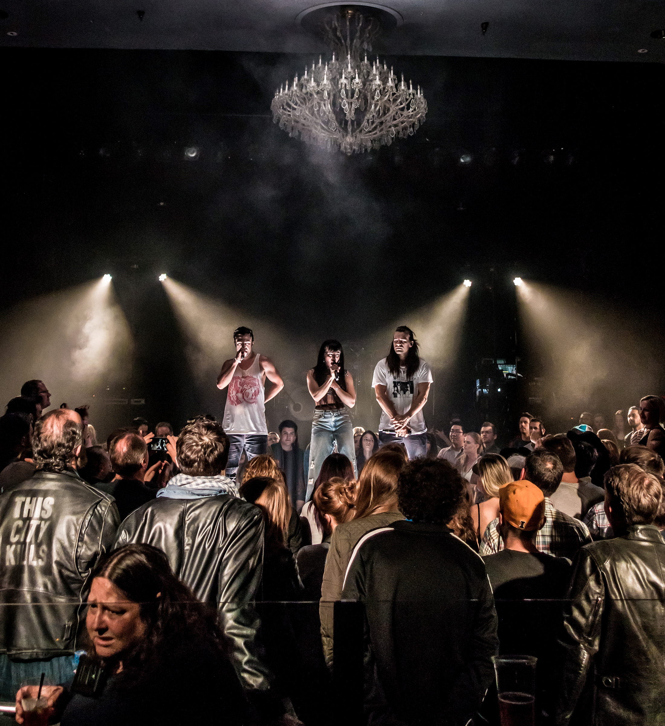 The Band Perry performing live at the El Rey Theatre in Los Angeles California on Monday, March 20, 2017. Part of their "My Bad Imagination" pop-up tour.